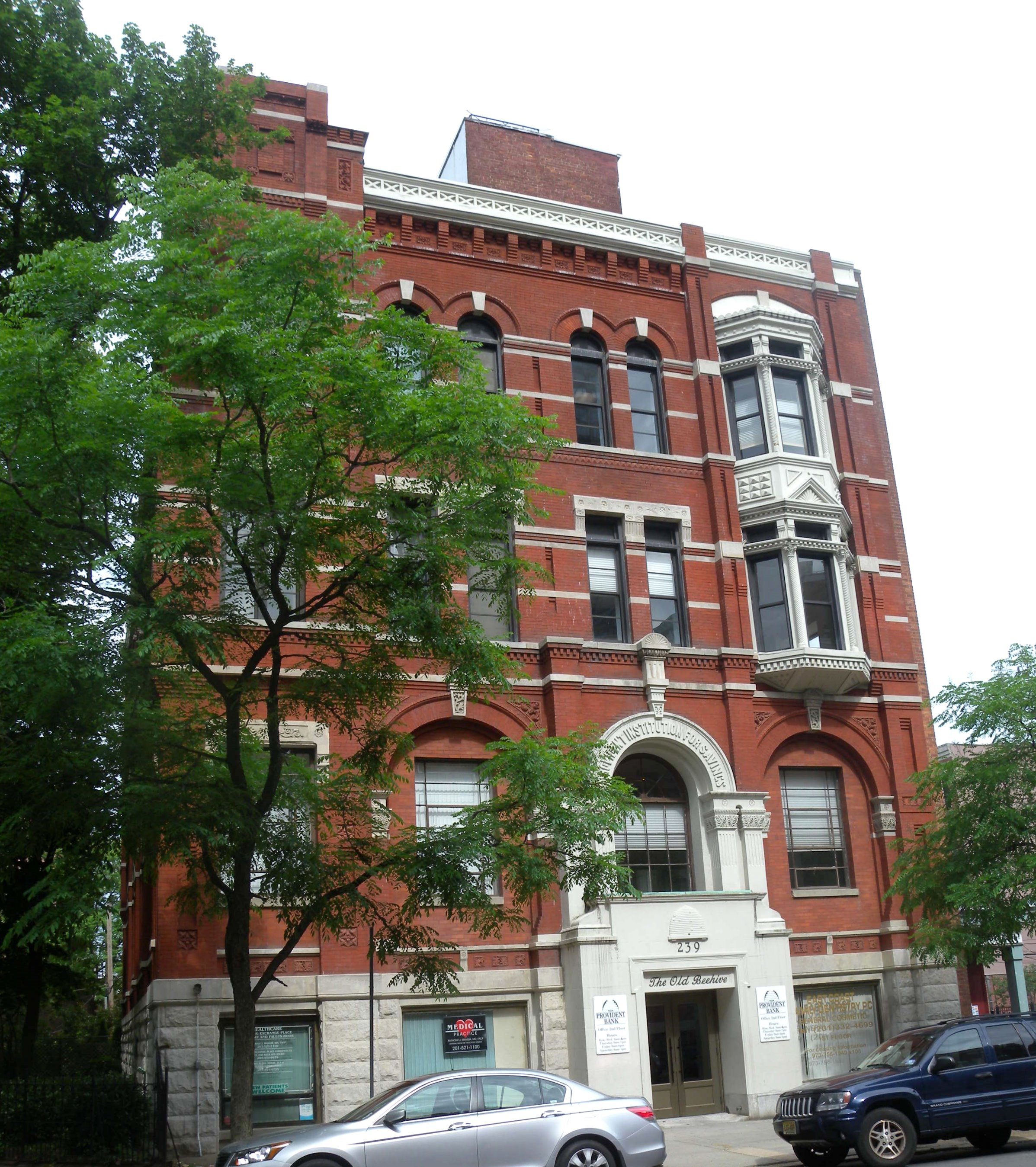 Looking west across Washington Street at Provident Savings Bank building on a cloudy morning.